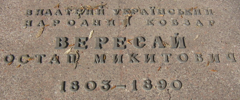 Grave of Ostap Veresai